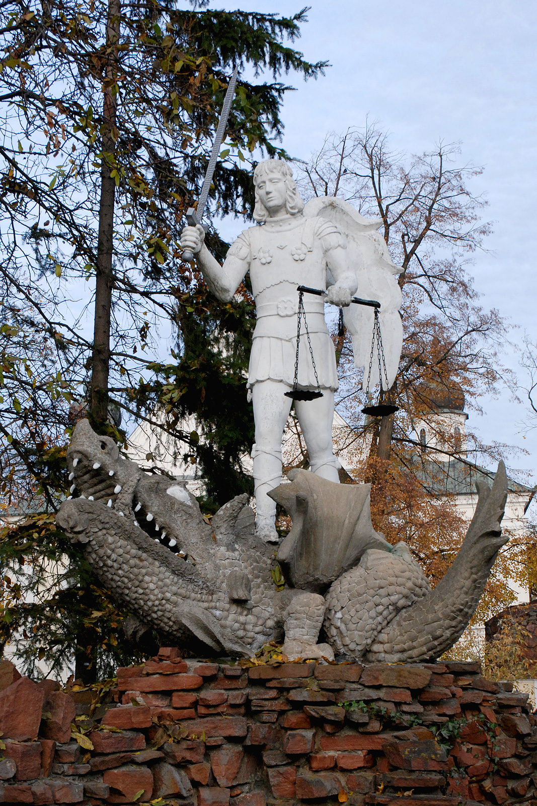 Statue of Archangel Michael slaying the dragon beside Church of St. Anna.